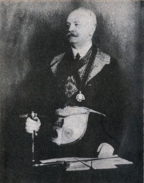 Árpád Bókay, grand master of Symbolic Grand Lodge of Hungary in masonic costume.